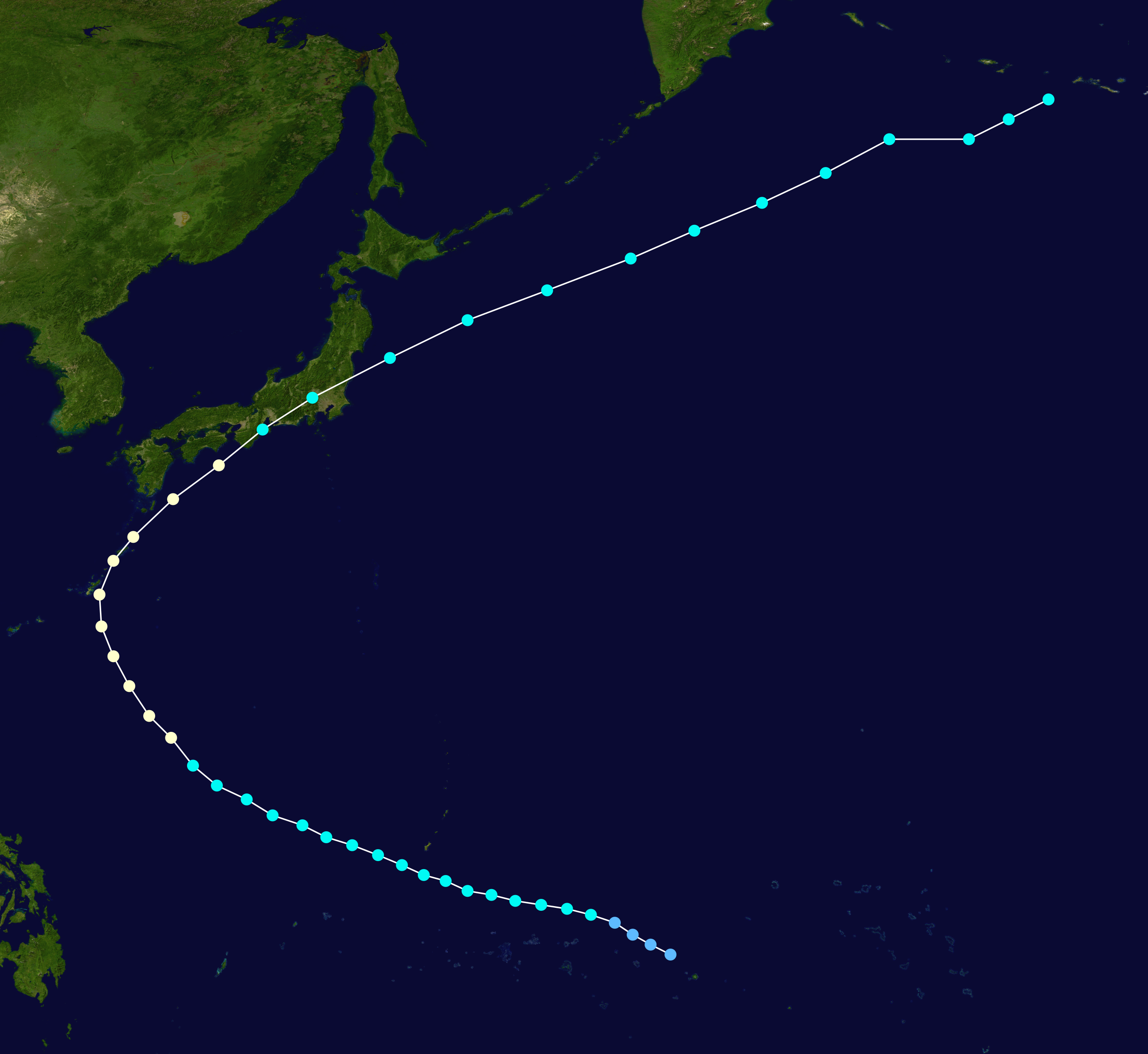 Track map of Typhoon Ida of the 1945 Pacific typhoon season. The points show the location of the storm at 6-hour intervals. The colour represents the storm's maximum sustained wind speeds as classified in the Saffir–Simpson scale (see below), and the shape of the data points represent the nature of the storm, according to the legend below. Saffir–Simpson scale Tropical depression≤38 mph≤62 km/h Category 3111–129 mph178–208 km/h Tropical storm39–73 mph63–118 km/h Category 4130–156 mph209–251 km/h Category 174–95 mph119–153 km/h Category 5≥157 mph≥252 km/h Category 296–110 mph154–177 km/h Unknown Storm type Tropical cyclone Subtropical cyclone Extratropical cyclone / Remnant low / Tropical disturbance / Monsoon depression